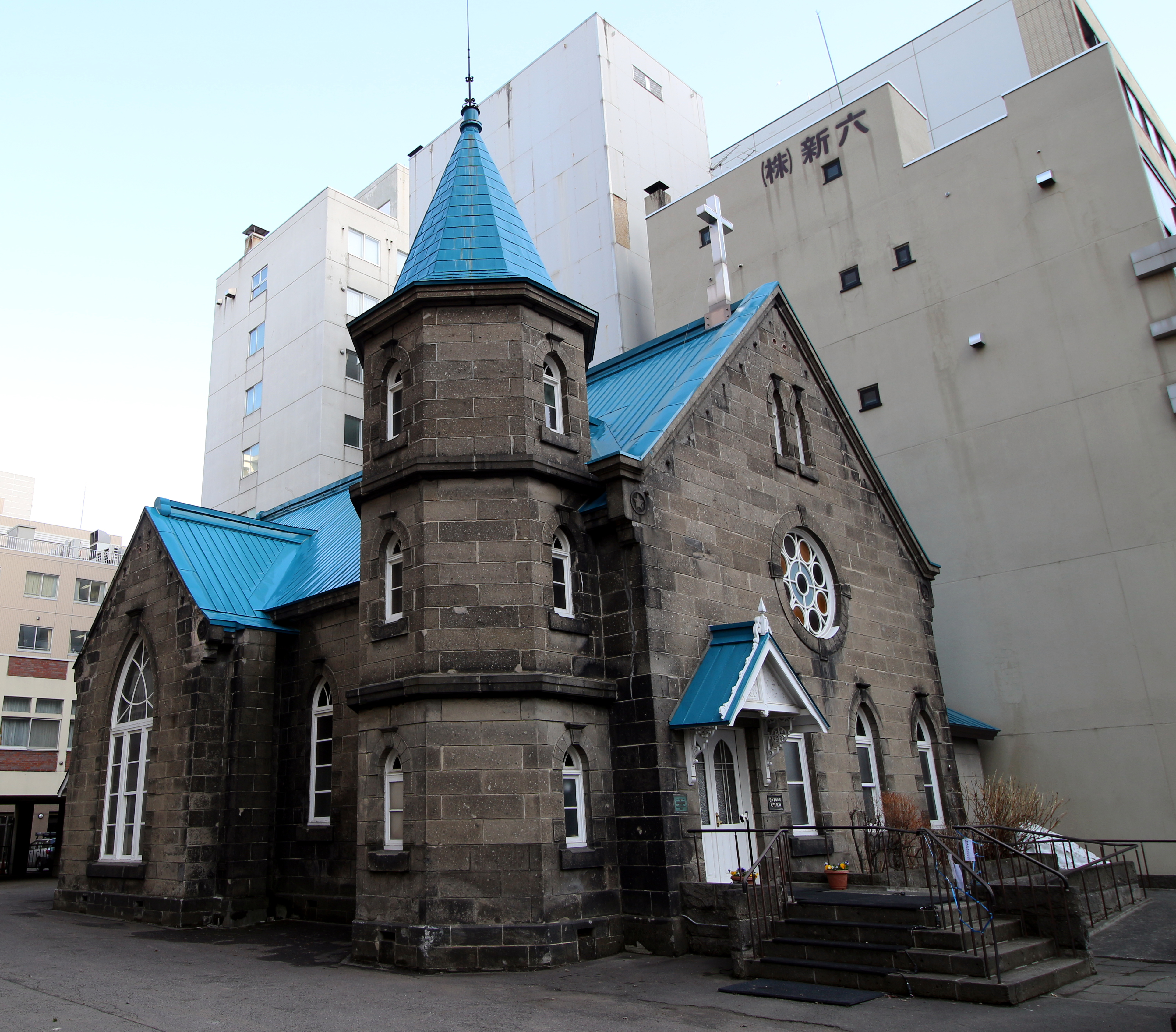 Nihon Kirisuto Kyodan Sapporo Church, United Church of Christ in Japan.